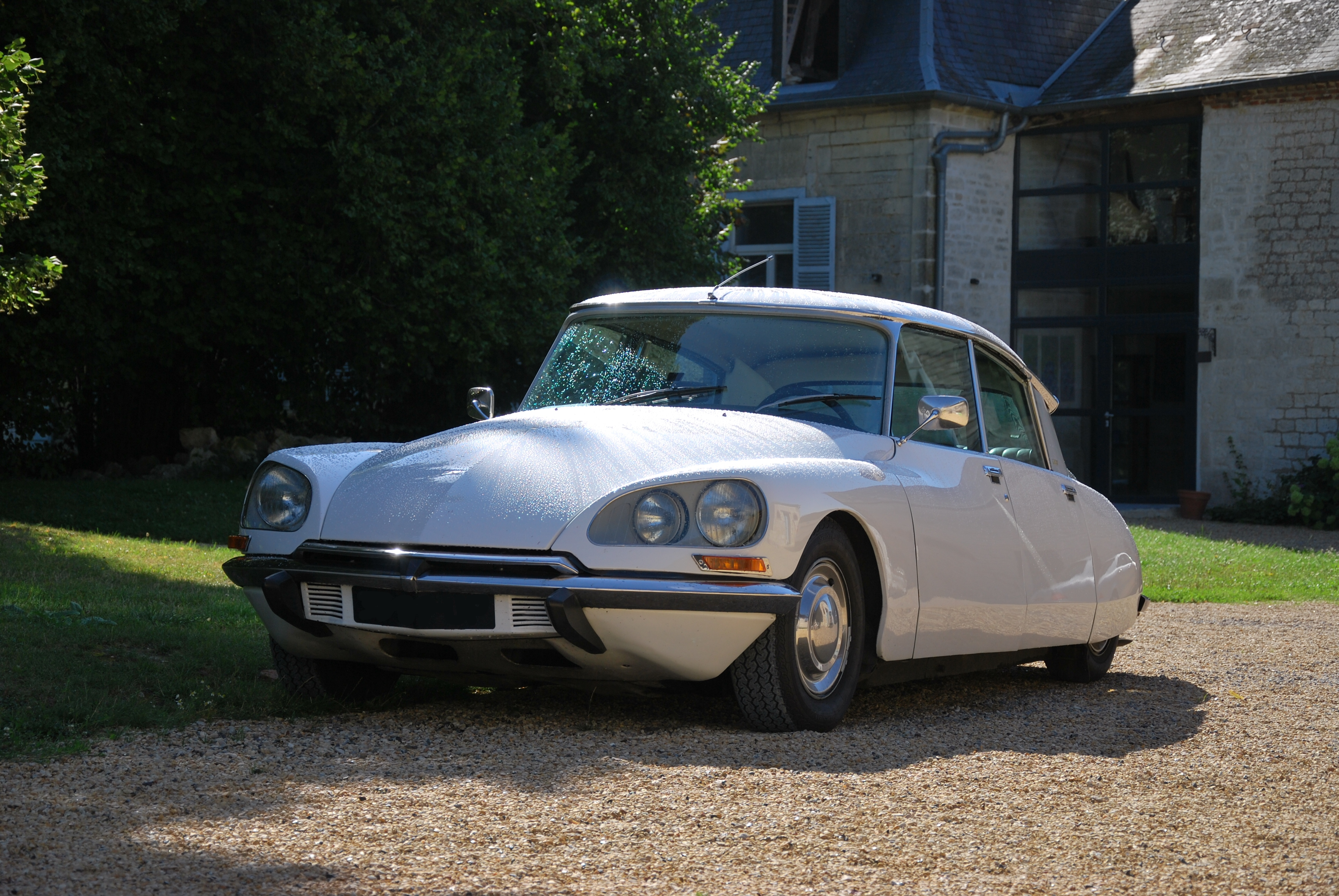 Citroën DSuper5 Front